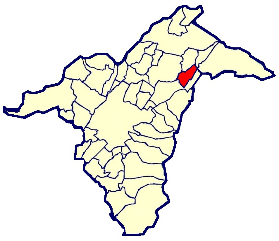 vrilissia